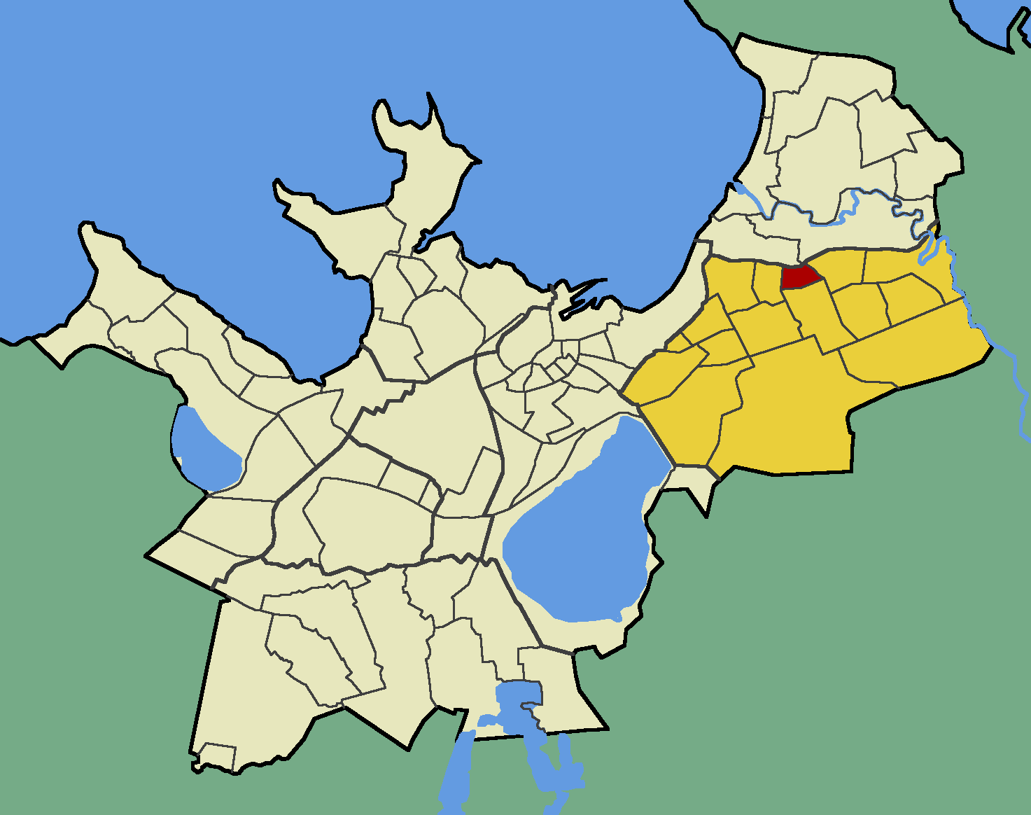 Map of Tallinn (Estonia) with borders of the quarters, Lasnamäe district and Katleri quarter emphasised